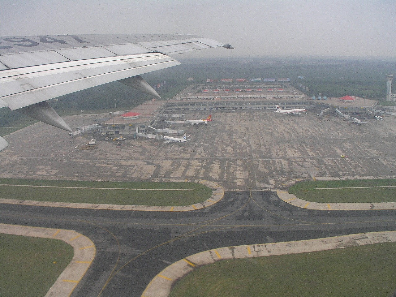 Harbin Taiping International Airport